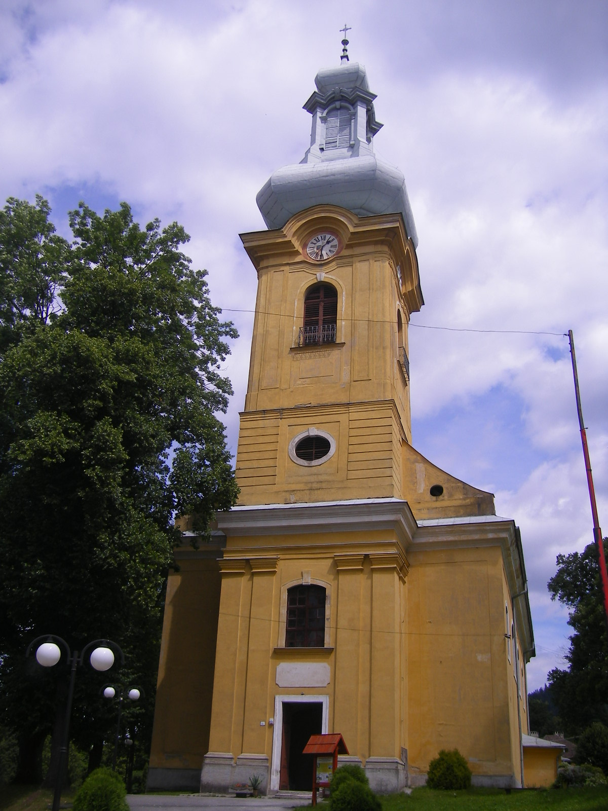 Smolník - church of Saint Catherine